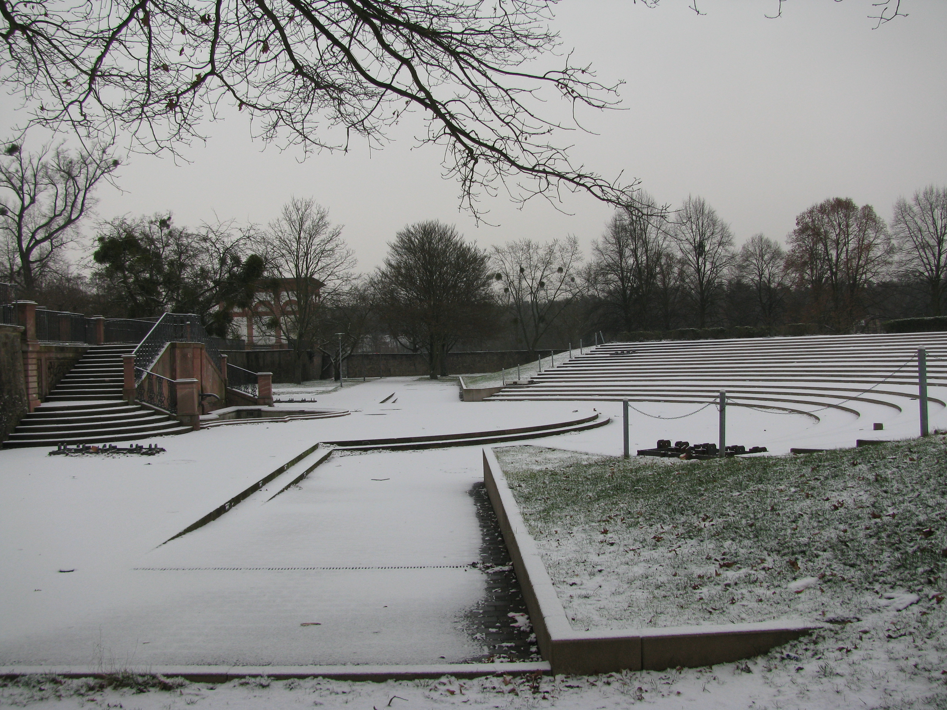 The Amphitheater Hanau in the winter with the "Goldene Treppe" on the left and the fountain in the middle.